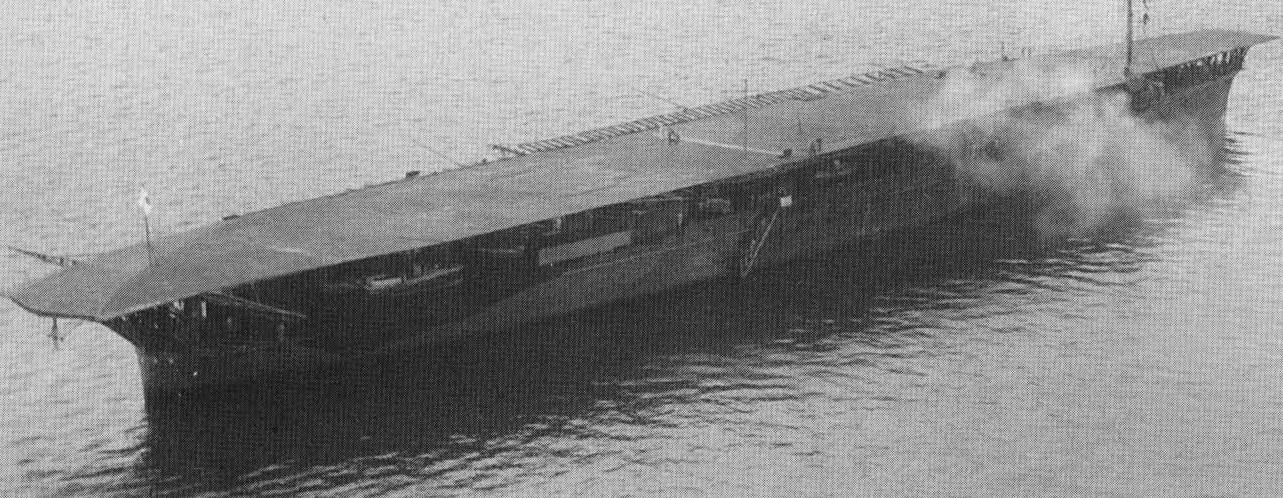 Imperial Japanese Navy aircraft carrier Hōshō in October 1945 after Japan's surrender. The image shows the ship's extended and widened flight deck.